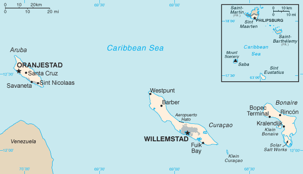 Map of the Dutch Caribbean islands. For a map reflecting the former situation of the Netherlands Antilles, see File:Netherlands Antilles before 1986.png.